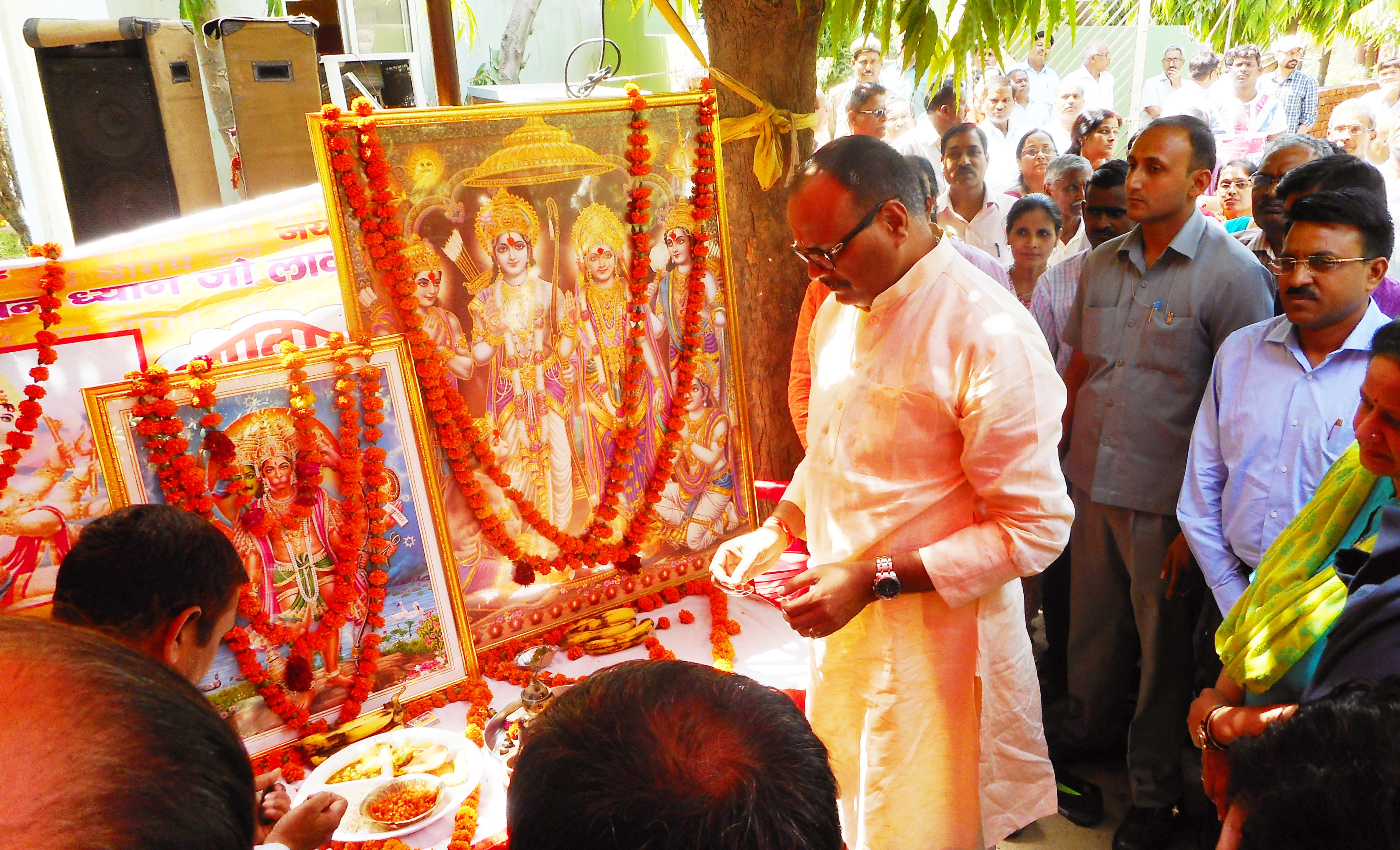 Bada Mangal is a ritual specific only and only to Lucknow.